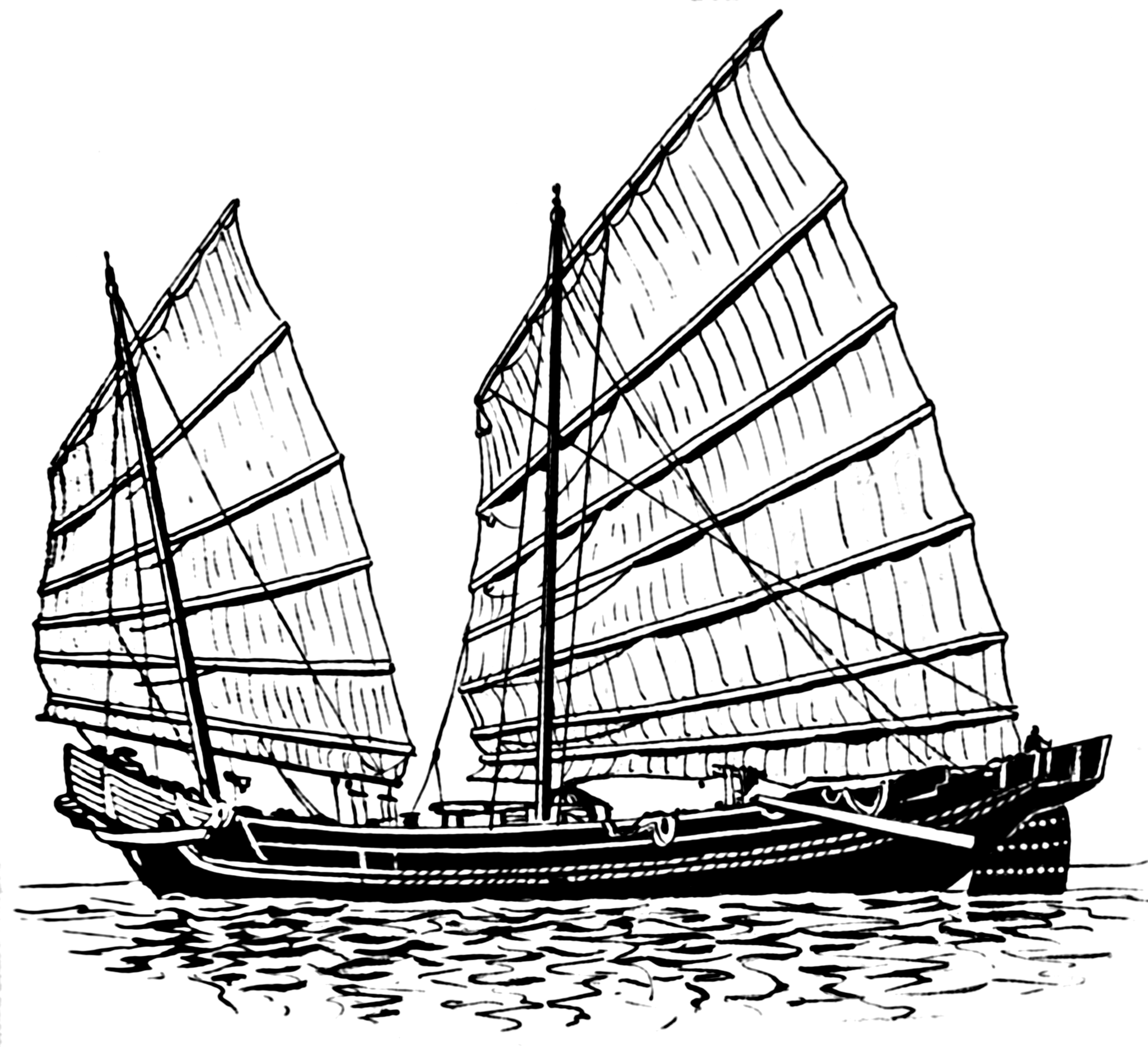 Line art of junk.